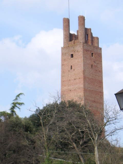 Tower of Frederick II ("Rocca di Federico II"), San Miniato, Tuscany, Italy